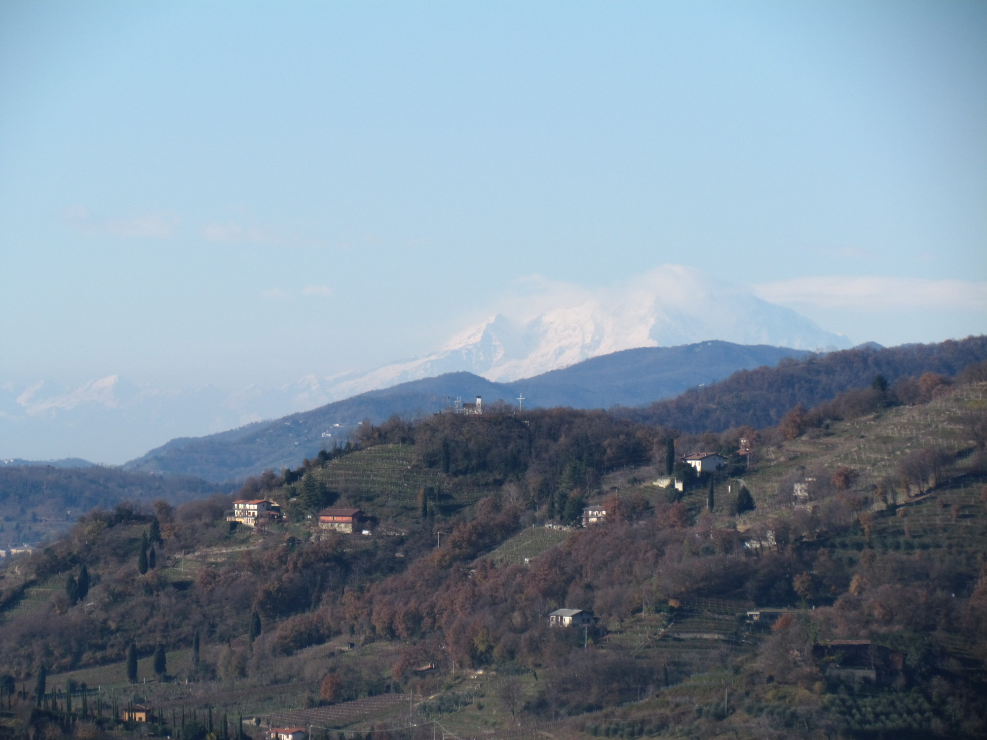 Photo of Monte Bastia (Scanzorosciate), taken from Tribulina. The top is marked by the presence of a small church with a cross